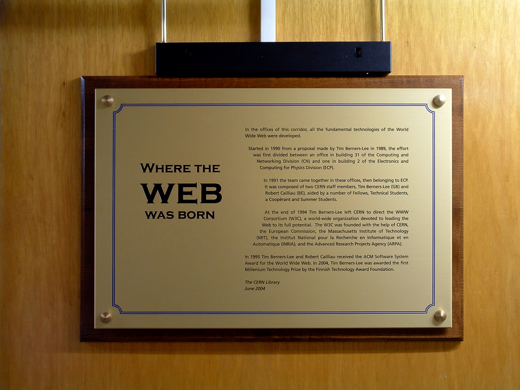 Text: Where the WEB was born In the offices of this corridor, all the fundamental technologies of the World Wide Web were developed. Started in 1990 from a proposal by Tim Berners-Lee in 1989, the effort was first divided between an office in building 31 of the Computing and Networking Division (CN) and one in building 2 of the Electronics and Computing for Physics Division (ECP). In 1991 the team came together in these offices, then belonging to ECP. It was composed of two CERN staff members, Tim Berners-Lee (TB) and Robert Calliau (RC), aided by a number of Fellows, Technical Students, a Coopérant and Summer Students. At the end of 1994 Tim Berners-Lee left CERN to direct the WWW consortium (W3C), a world-wide organization devoted to leading the Web to its full potential. The W3C was founded with the help of CERN, the European Commission, the Massachusetts Institute of Technology (MIT), the Institut National pour la Recherche en Informatique et en Automatique (INRIA), and the Advanced Research Projects Agency (ARPA). In 1995 Tim Berners-Lee and Robert Calliau received the ACM Software System Award for the World Wide Web. In 2004, Tim Berners-Lee was awarded the first Miliennium Technology Prize by the Finnish Technology Award Foundation. The CERN Library June 2004